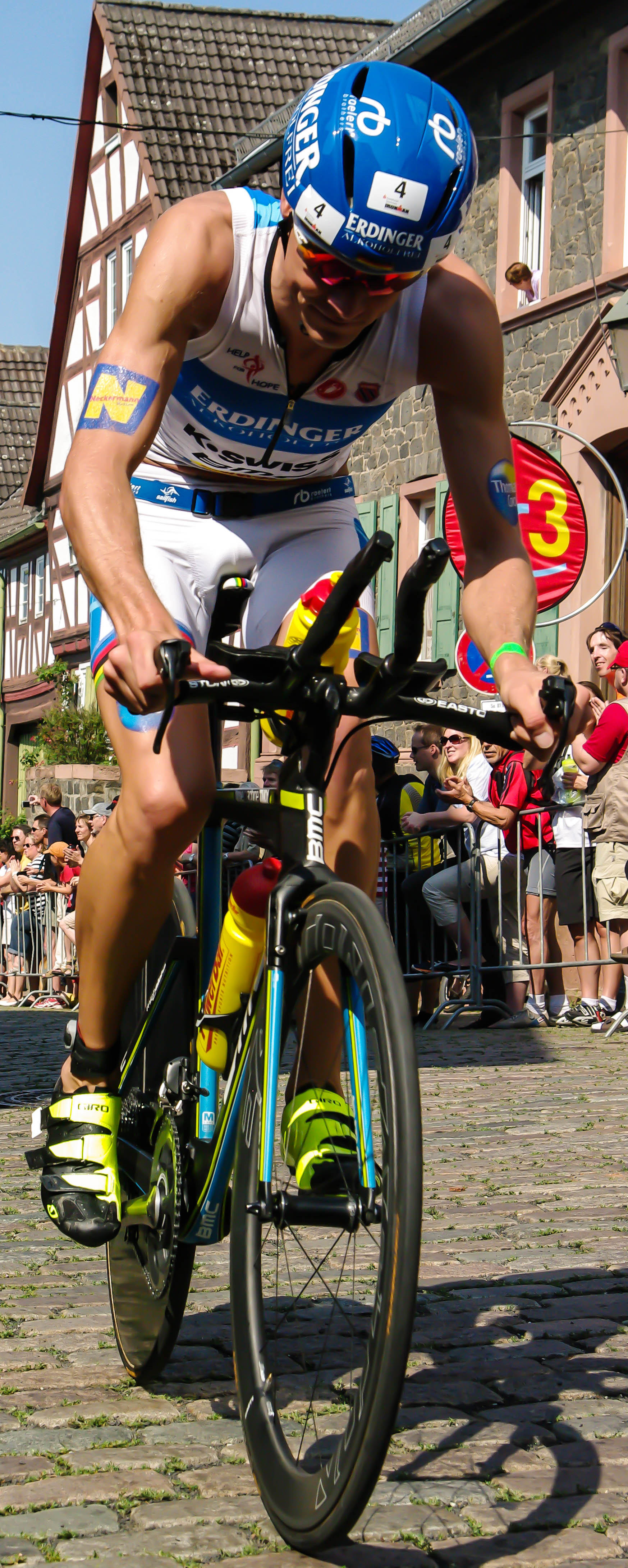 Ironman 2013 Frankfurt, Michael Raelert